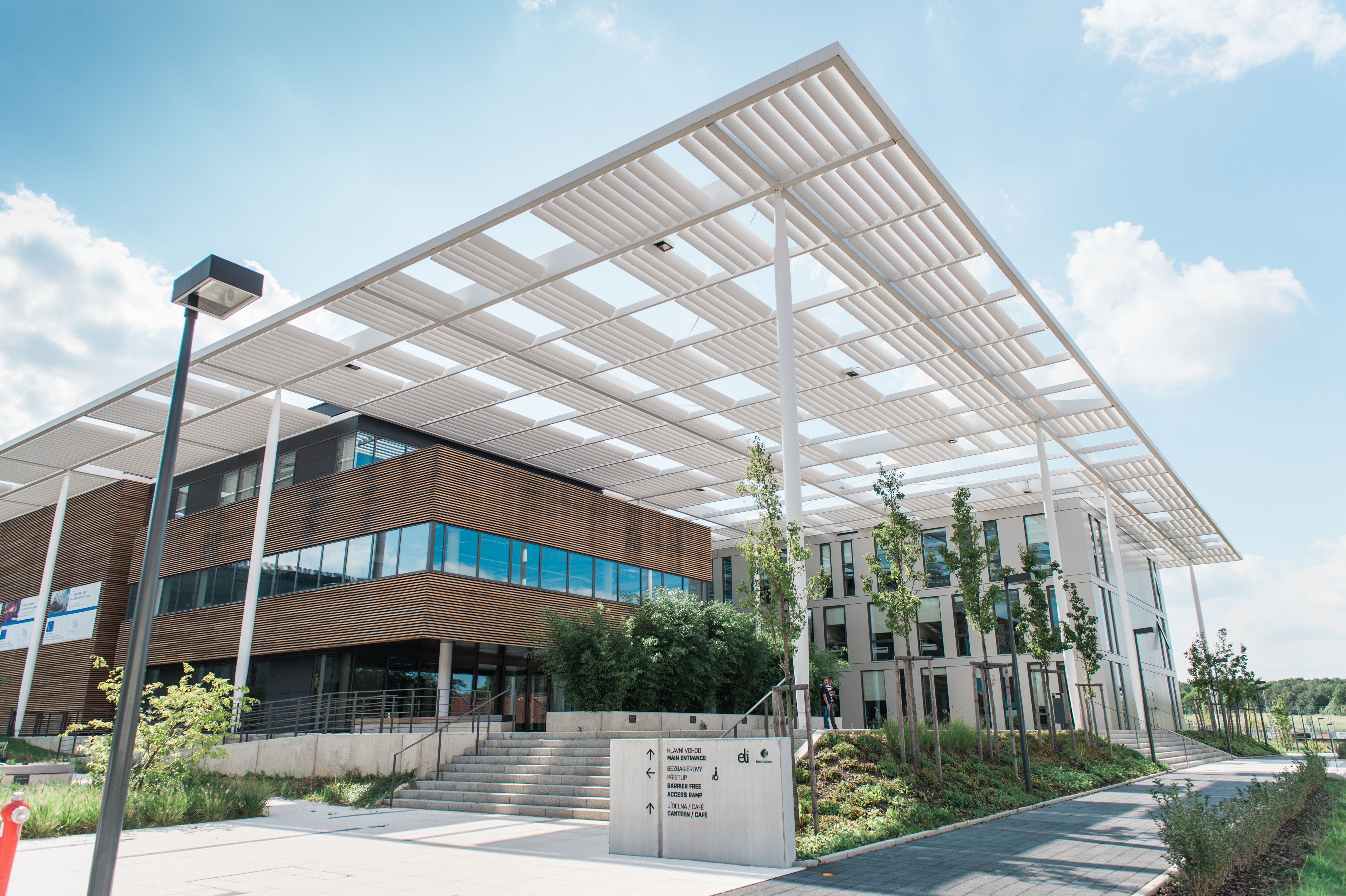 ELI Beamlines is a scientific centrum focusing about laser technique which is situated in Dolní Břežany, Czech Republic.